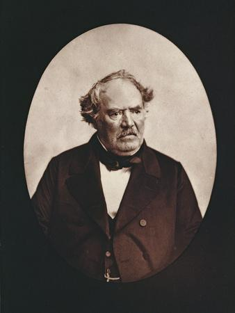 Portrait of French painter Octave Tassaert 1800-1874